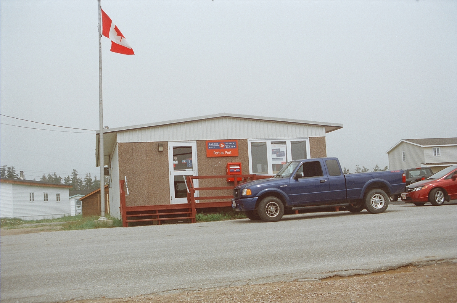 West coast of Newfoundland including Port au Port penensula, to Port aux Chois and Long Range Mountains. Stephenville and Corner Brook..